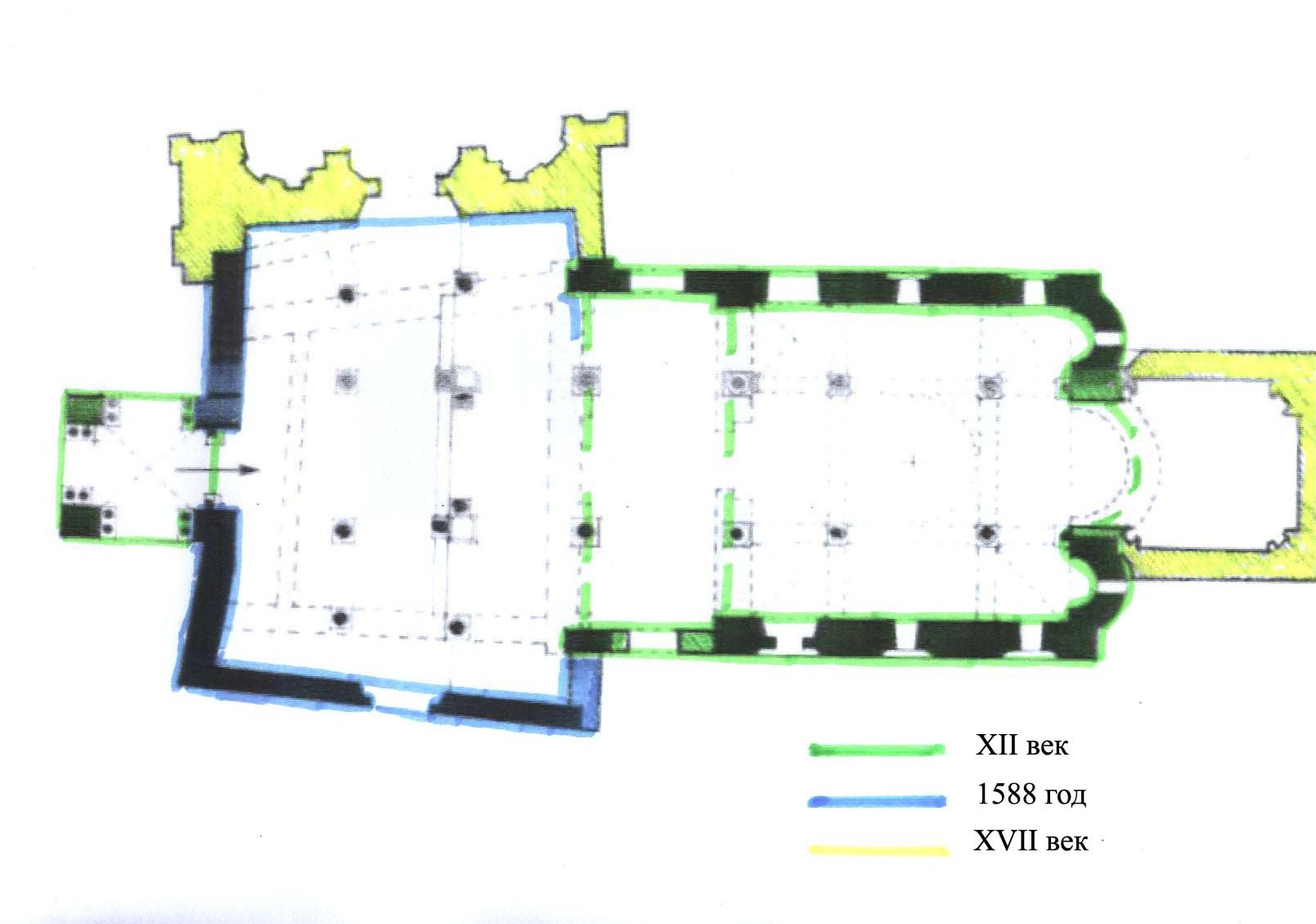 Plan of Martorana, Palermo - historical development